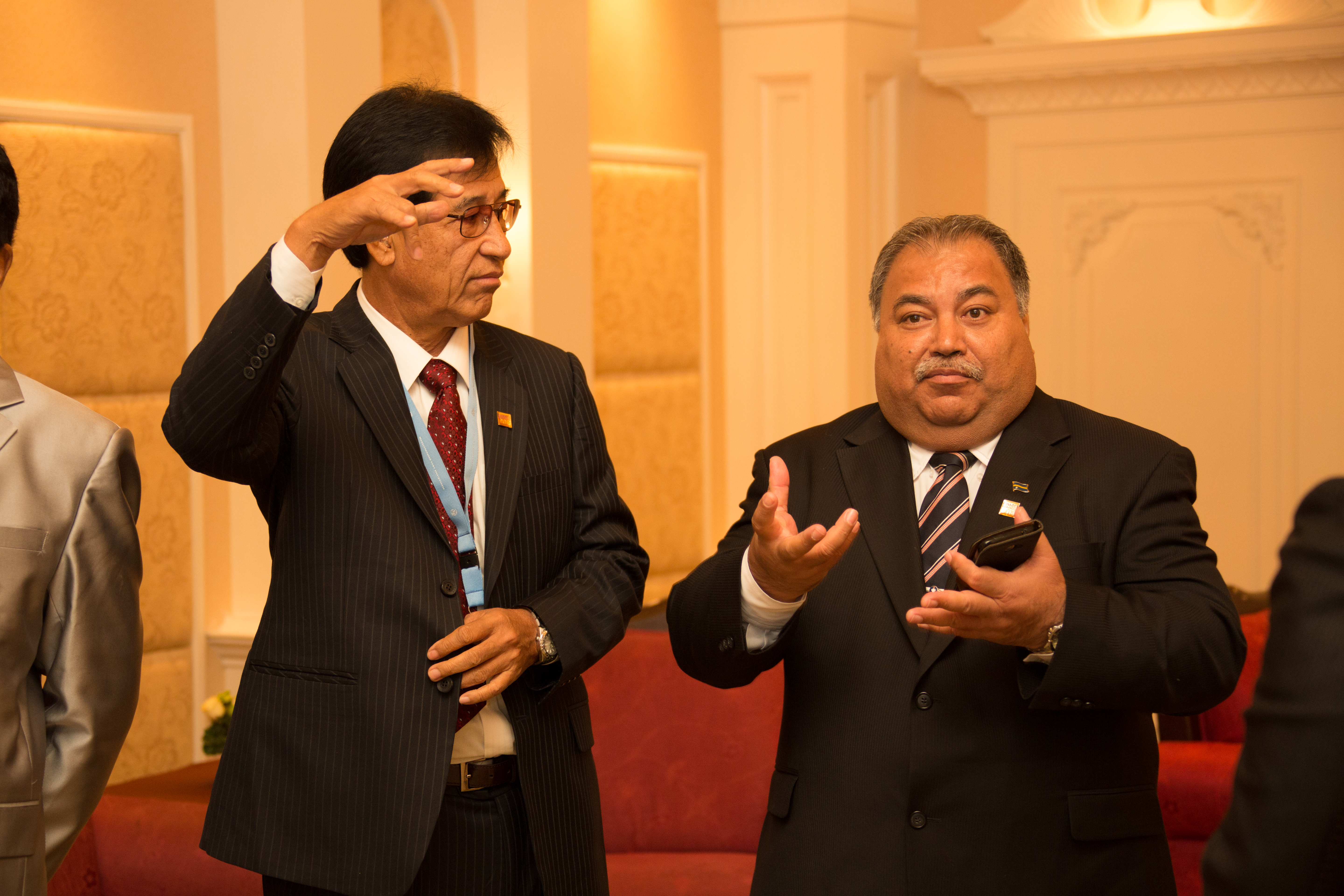 Emanuel Mori, president of Micronesia with Baron Waqa, president of Nauru at the Connect Asia-Pacific 2013 Summit.